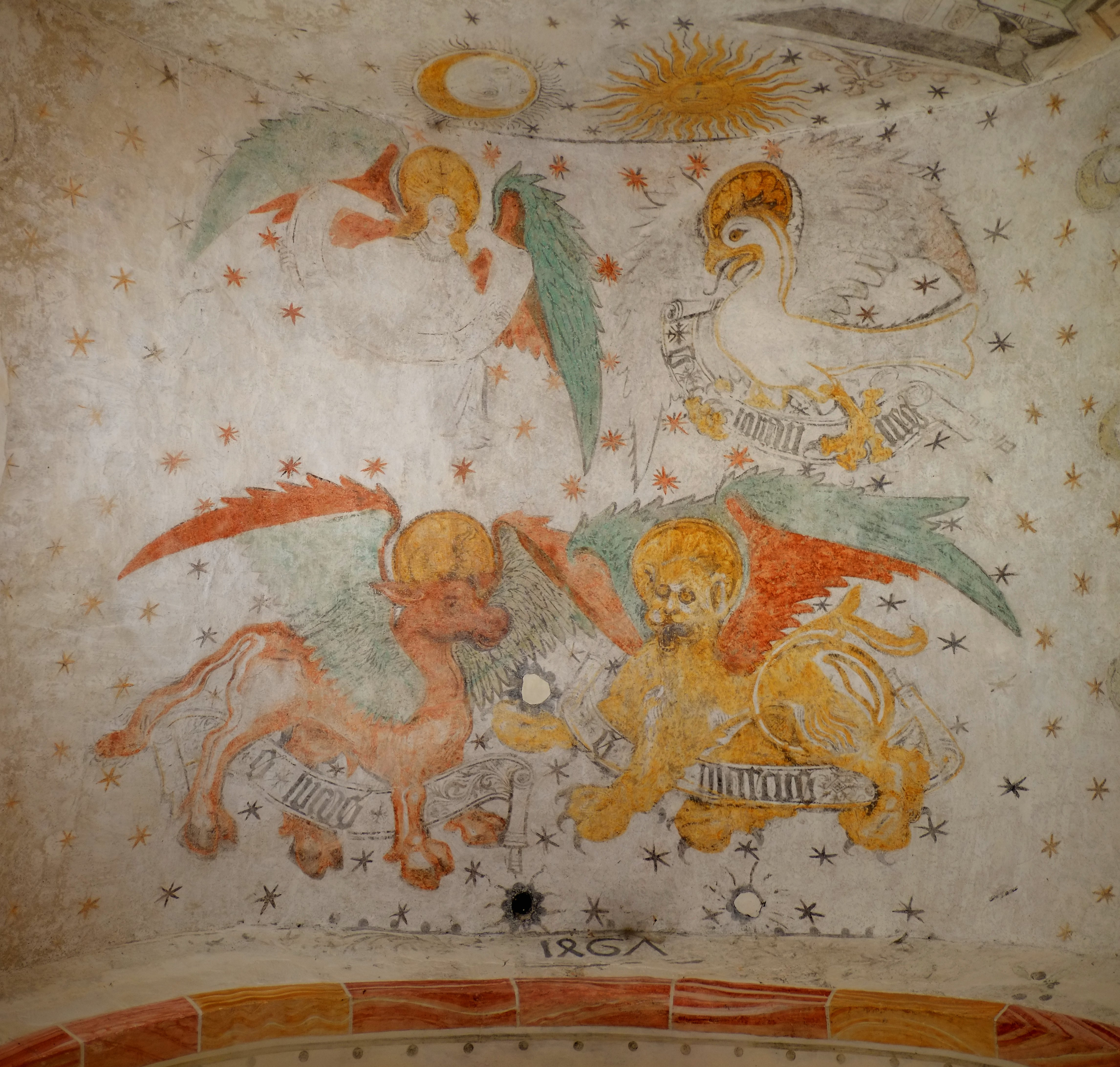 Paintings on the ceiling of the Chapel Saint Wendelin, Heiligenberg-Ramsberg, County Bodenseekreis, Baden Wurttemberg, Germany